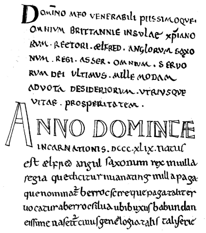 Facsimile of first page of Cotton manuscript of Asser's "Life of King Alfred". Facsimile was drawn in 1722; this image was found in Keynes & Lapidge, "Asser's Life of King Alfred and other contemporary sources", ISBN0-140-44409-2.